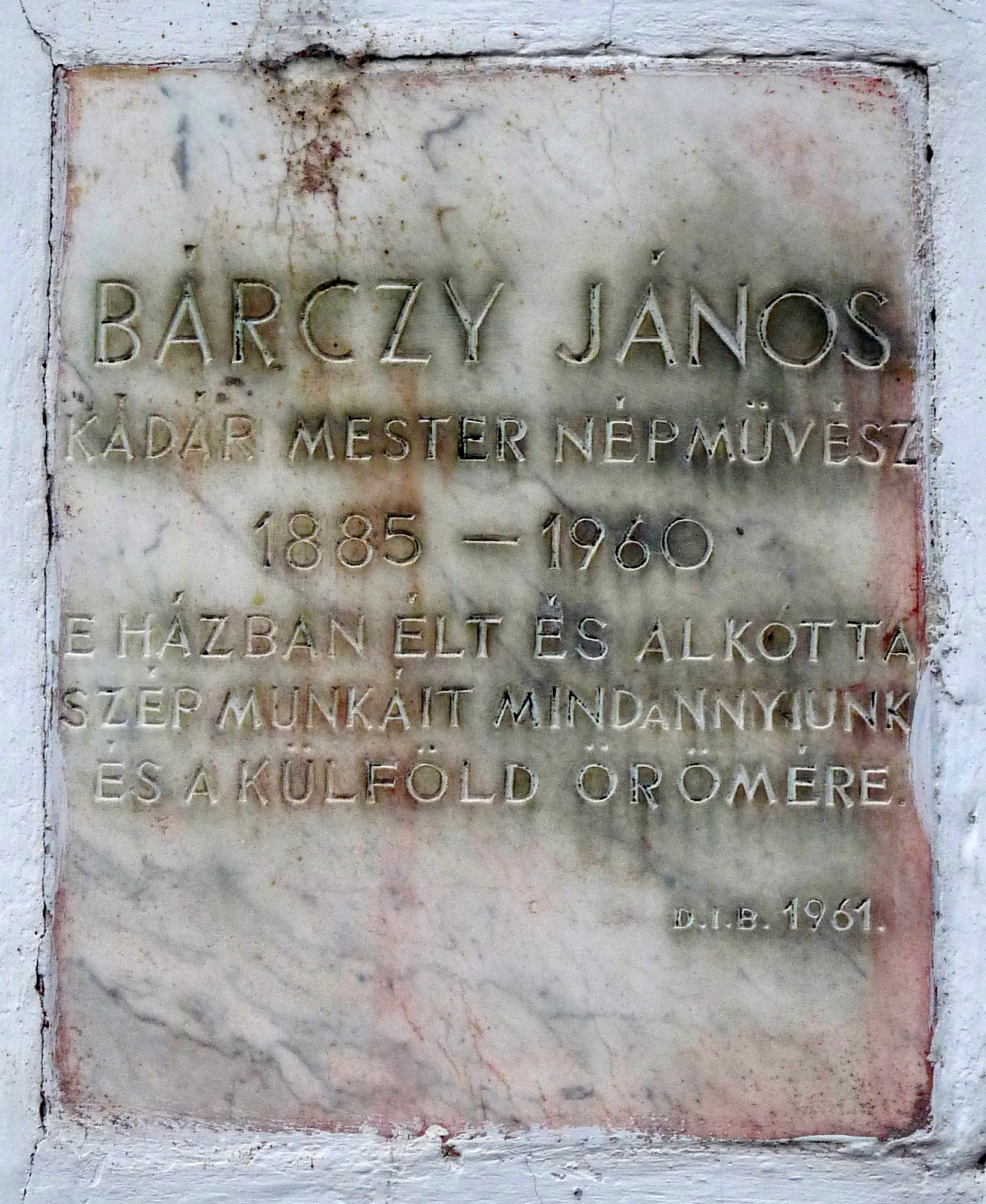 Commemorative plaque to Mr. János Bárczy (1885–1960) Hungarian cooper, folk artist. It was affixed to the front of his former home in 1961. (Szentendre, Bogdányi Road Nr 30)